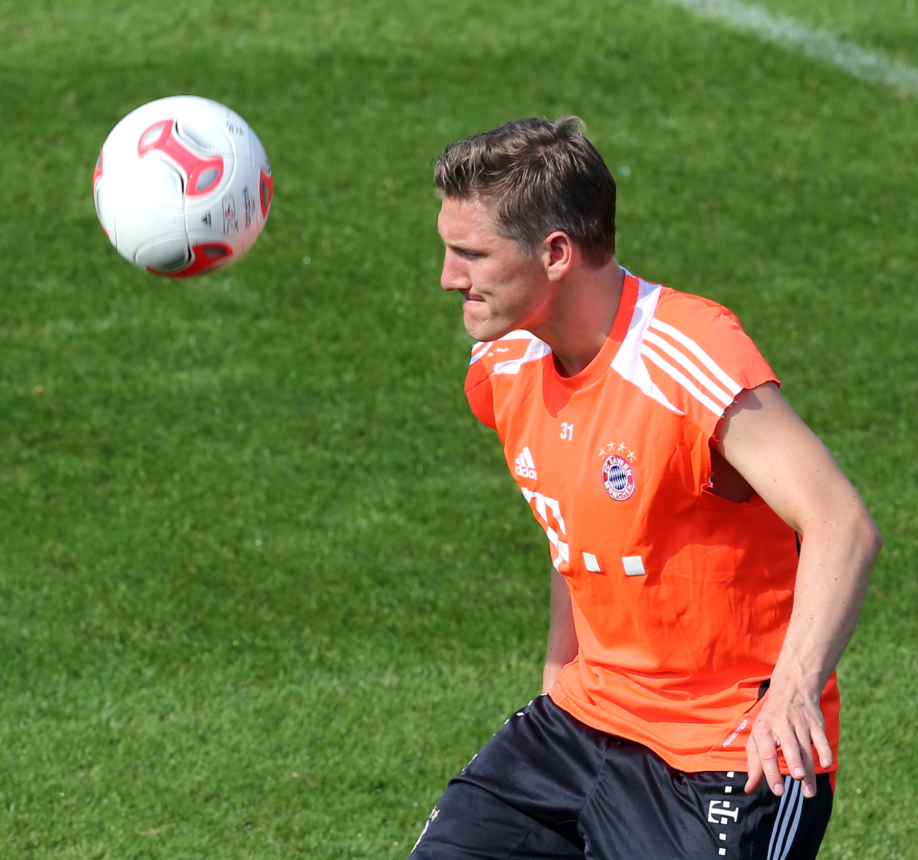 German club Bayern Munich's Bastian Schweinsteiger controls the ball during a training session at the ASPIRE Academy in Doha.